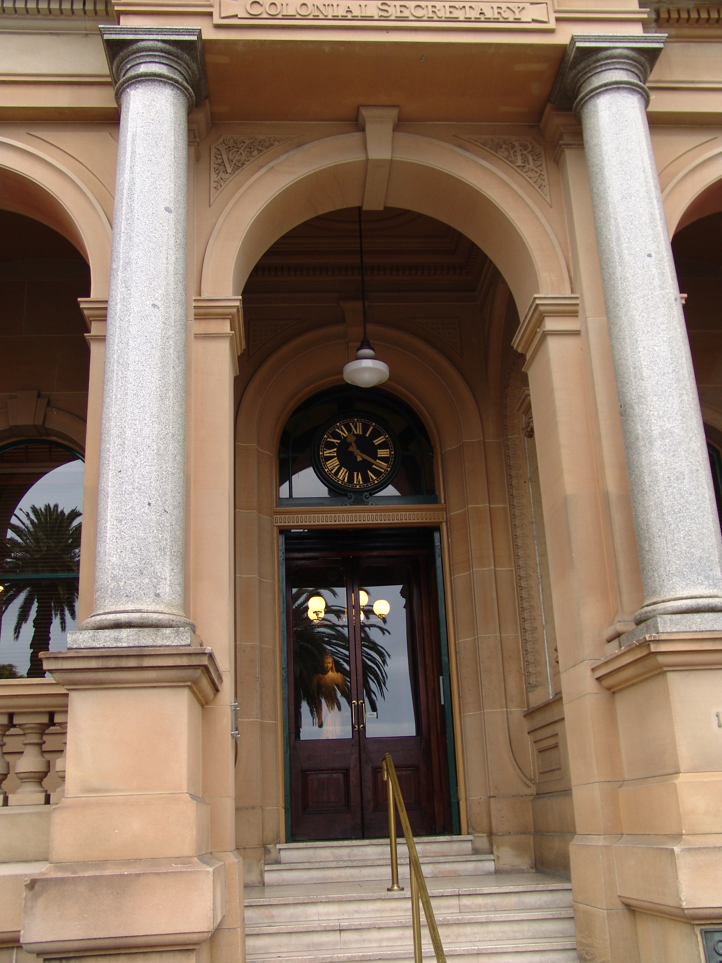 Main Entrance (Macquarie St) of the Chief Secretary's Building, Sydney